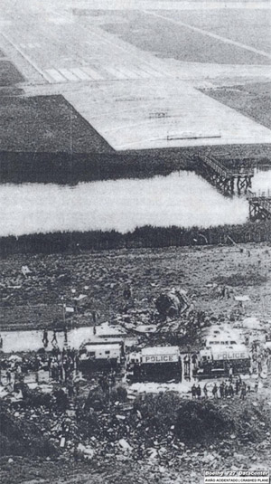 Photo of wreckage of Flight 66 on Rockaway Boulevard, just north of runway 22L.